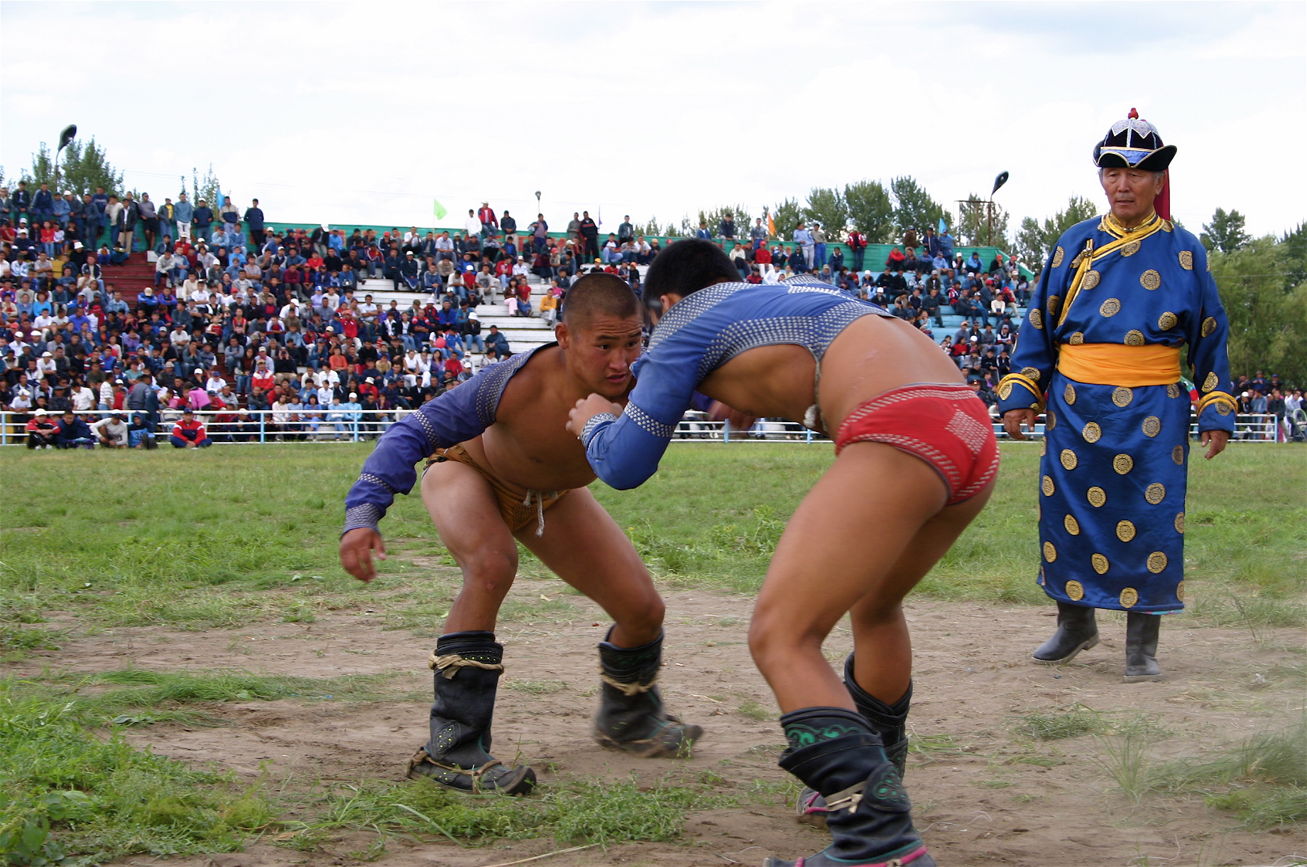 Tuvan wrestlers. Тыва дыл: Кызыл, Наадым, хуреш